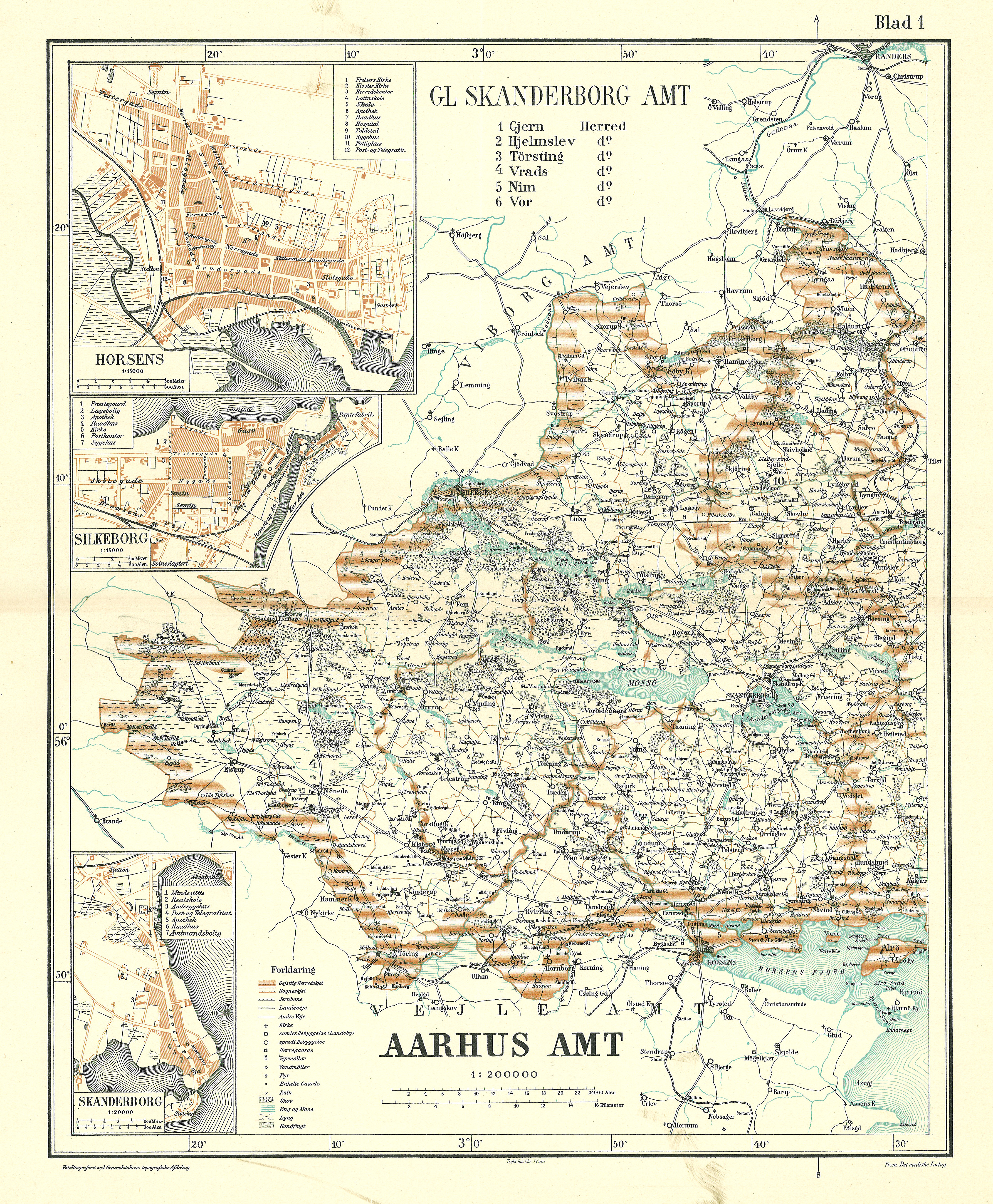 Map of Skanderborg County in Denmark